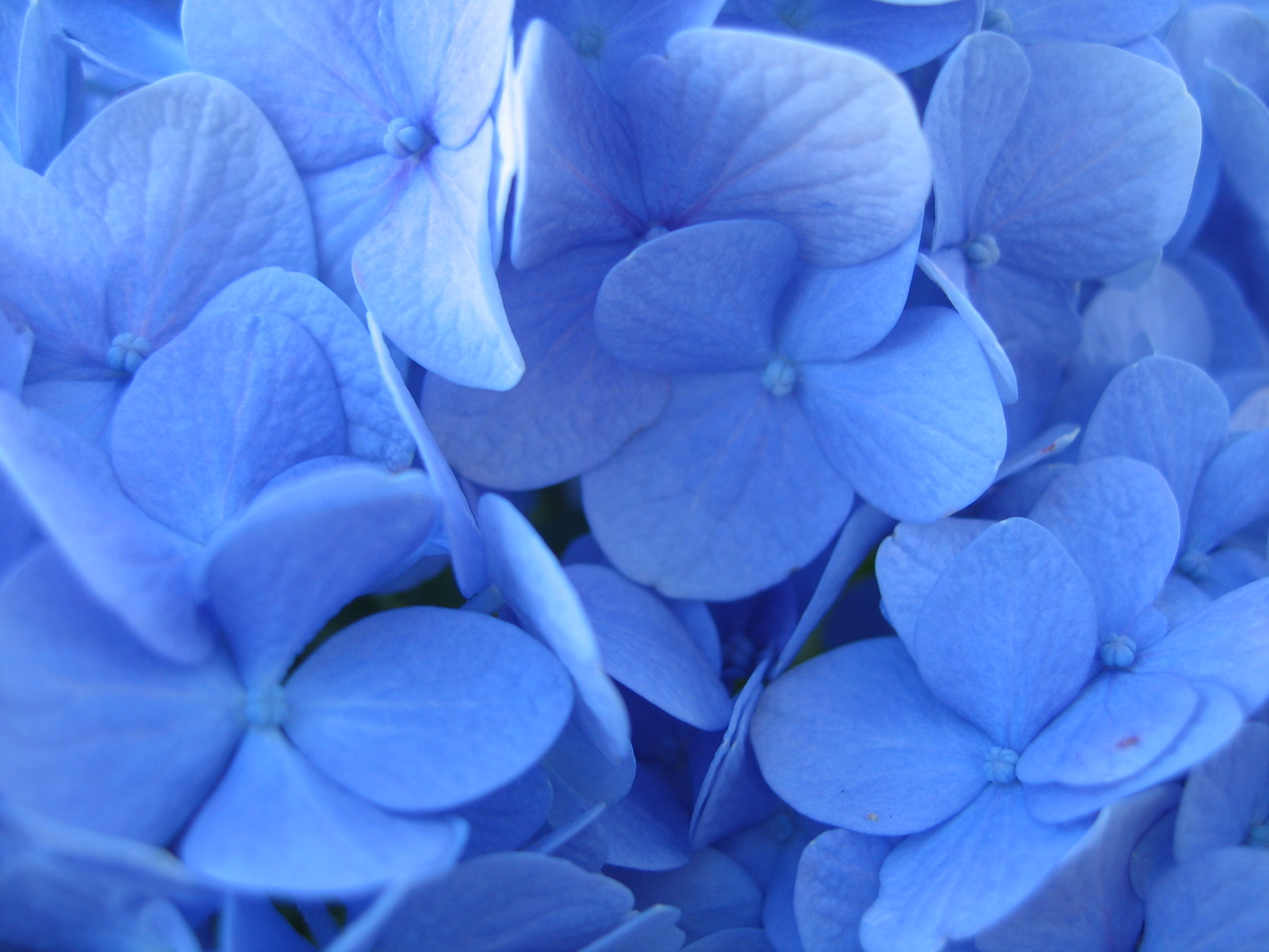 Personal photo of 'Nikko Blue' hydrangea petals from my garden in Traverse City, Michigan. Petal color was altered through regular use of aluminum sulfate, pine bark mulch and watering with tap water acidified through the addition of sulfuric acid.